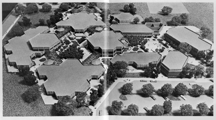 Monochrome image of a photograph of an architectural model made by Ron D. Young of the proposed Irvine High School. Model was completed in the early 1970s. Scanned from un-copyrighted 1976 Irvine High School class yearbook. Low resolution monochrome, 722 pixels wide, contains pixellation artifacts from printing-to-scanning process. Major vertical line defect in image from the seam of source--photograph spanned two pages of yearbook.